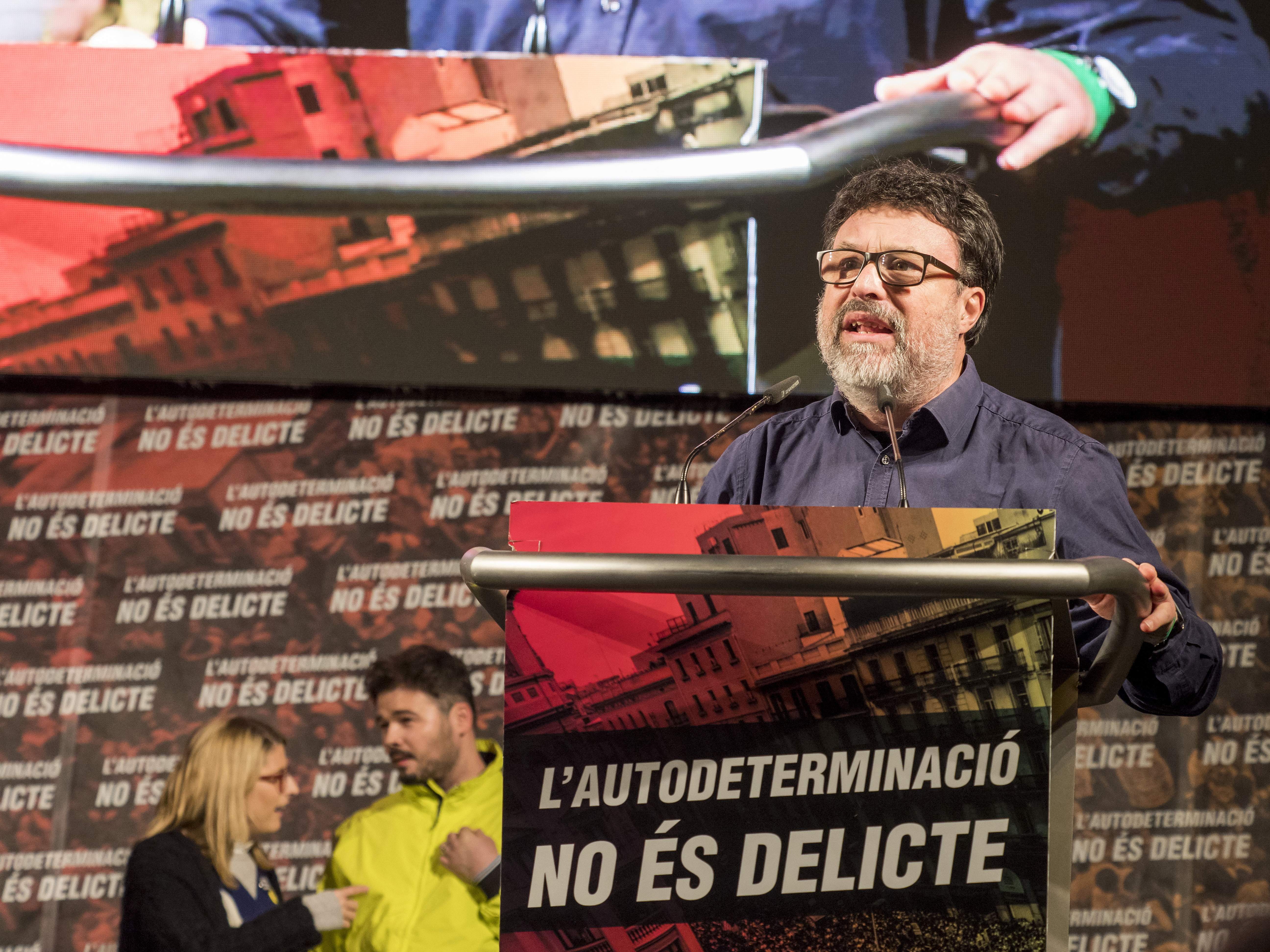 Demonstration: "Self-determination is not a crime"